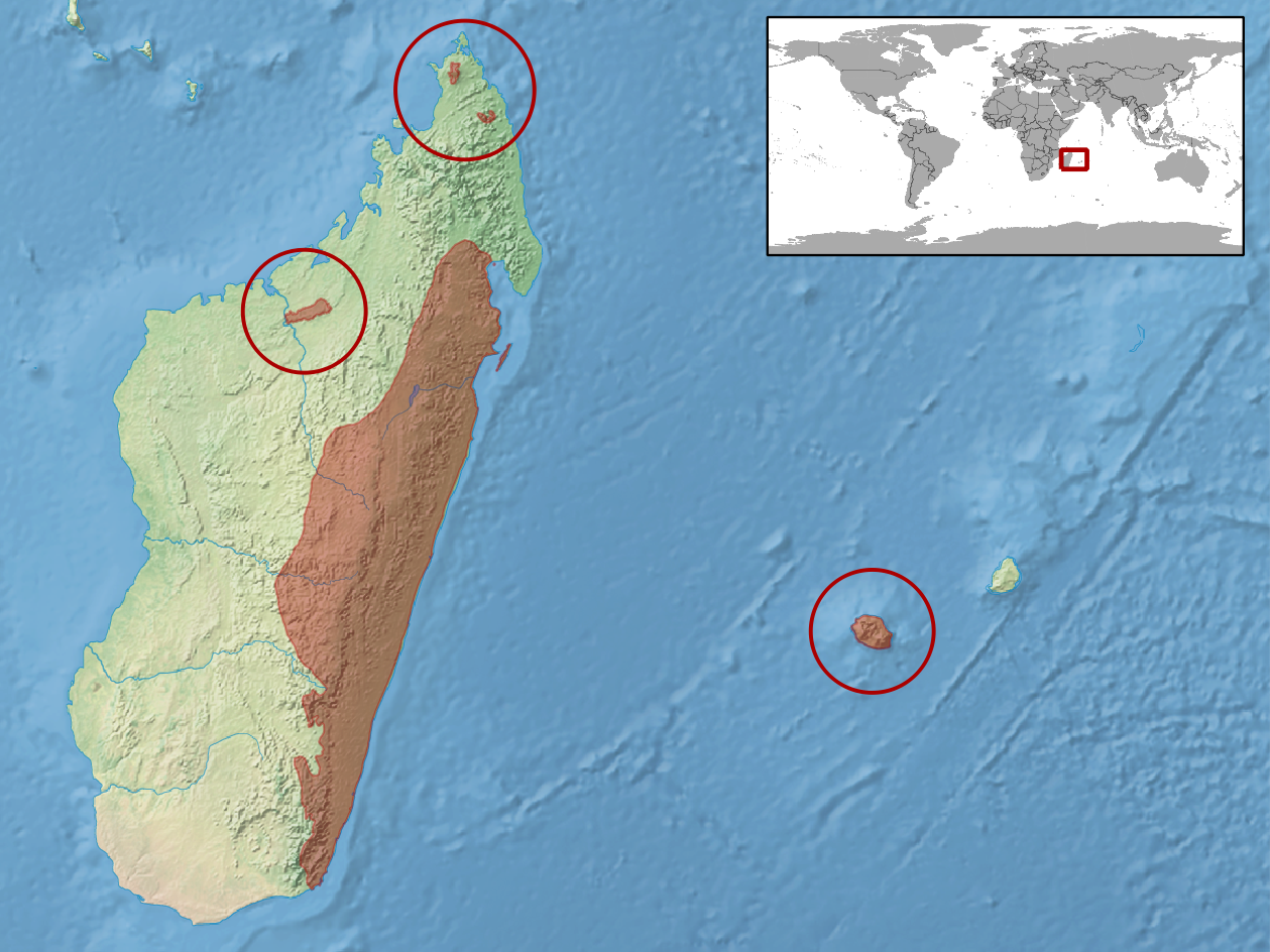 geographic distribution of Phelsuma lineata (Native: Madagascar / Introduced: Réunion)